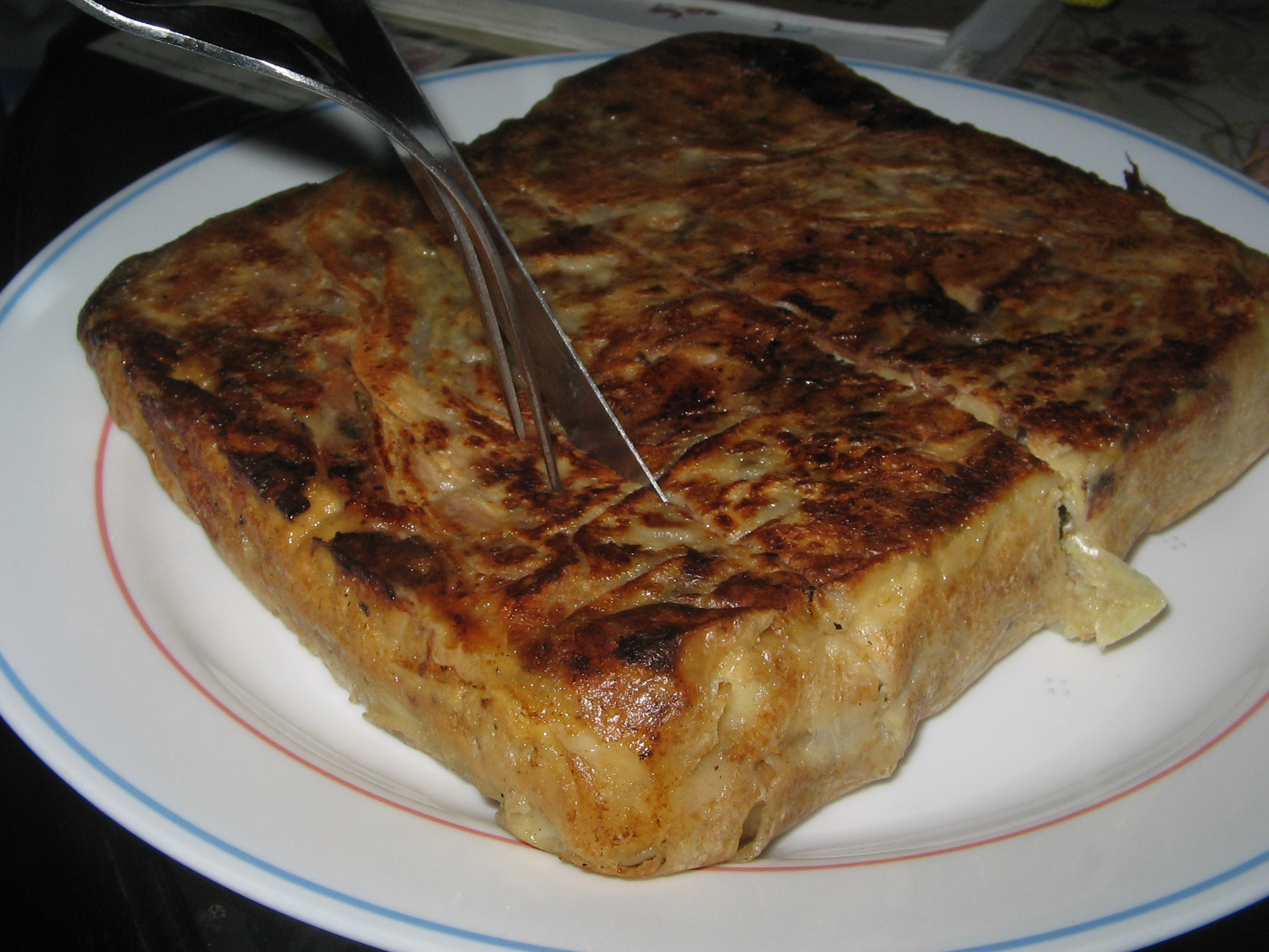 Tradisional food, special murtabak.